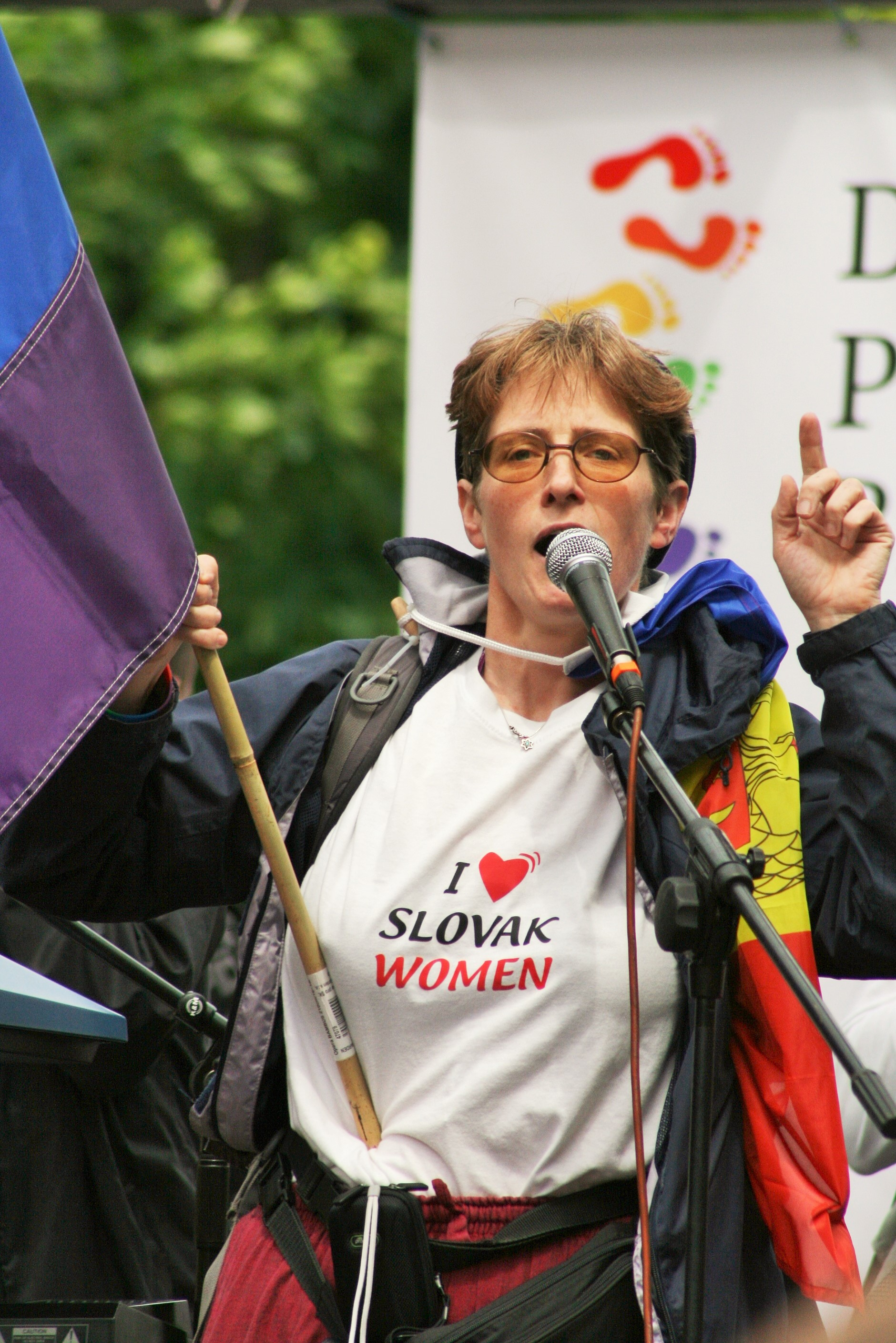 Claire Dimyon at Dúhový Pride (LGBT pride parade) in Bratislava 2010.